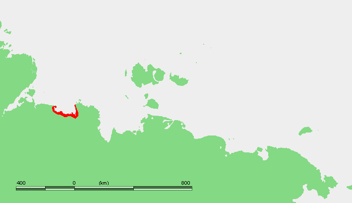 Location map